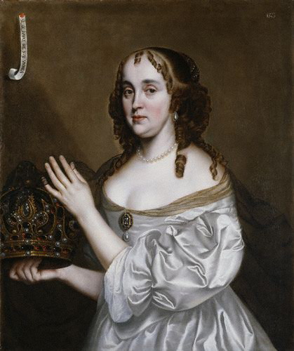 All images in this batch have an unknown author, but there is strong evidence it was first published before 1923 (based mainly on the NPG's estimated date of the work).